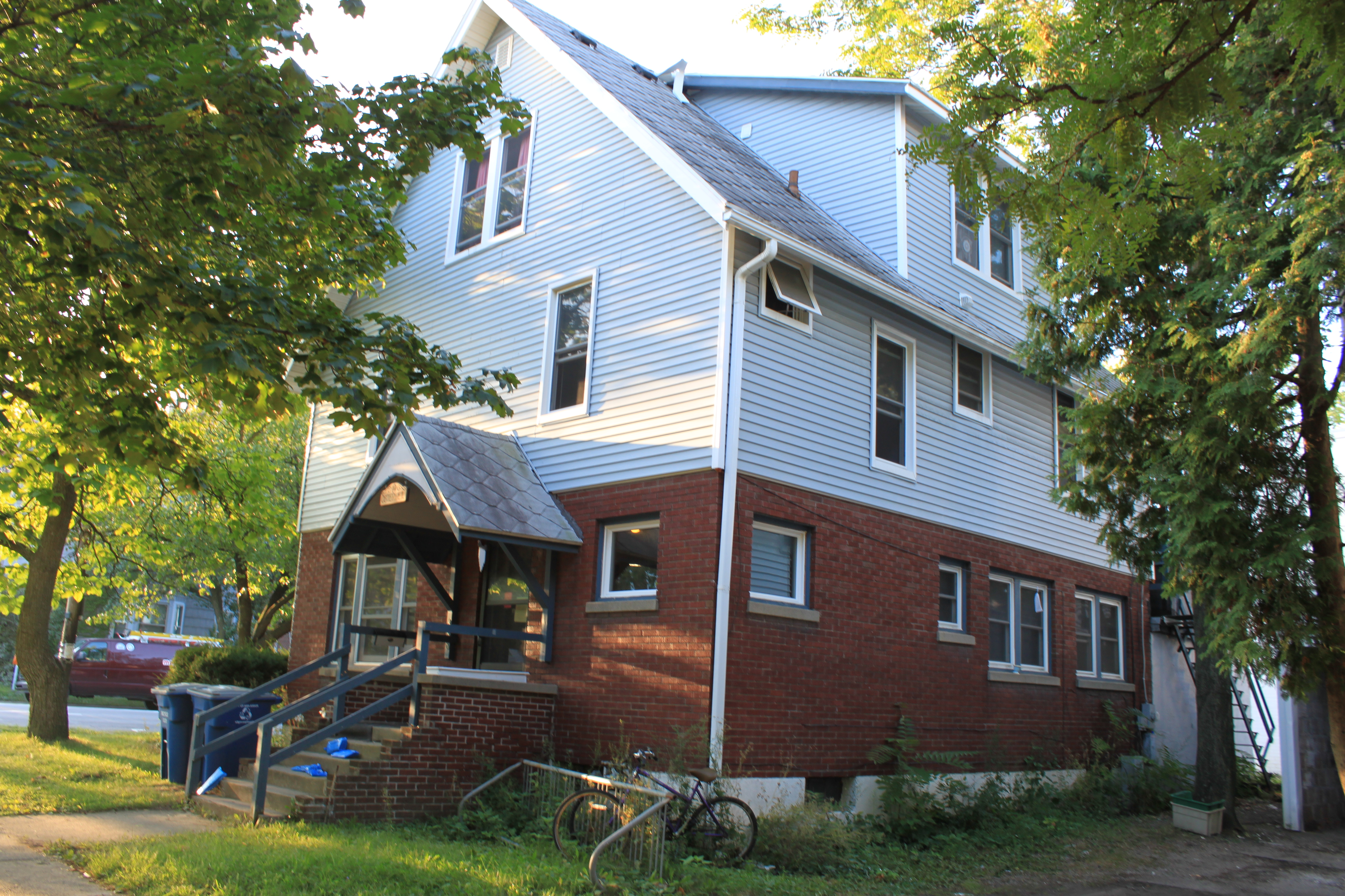 Harold Osterweil Cooperative House, 338 E. Jefferson, University of Michigan, Ann Arbor Michigan